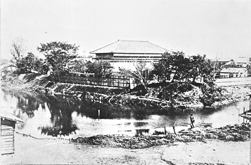 HOUDEN Oil Corporation and inner moat of the Nagaoka Castle Ninomaru